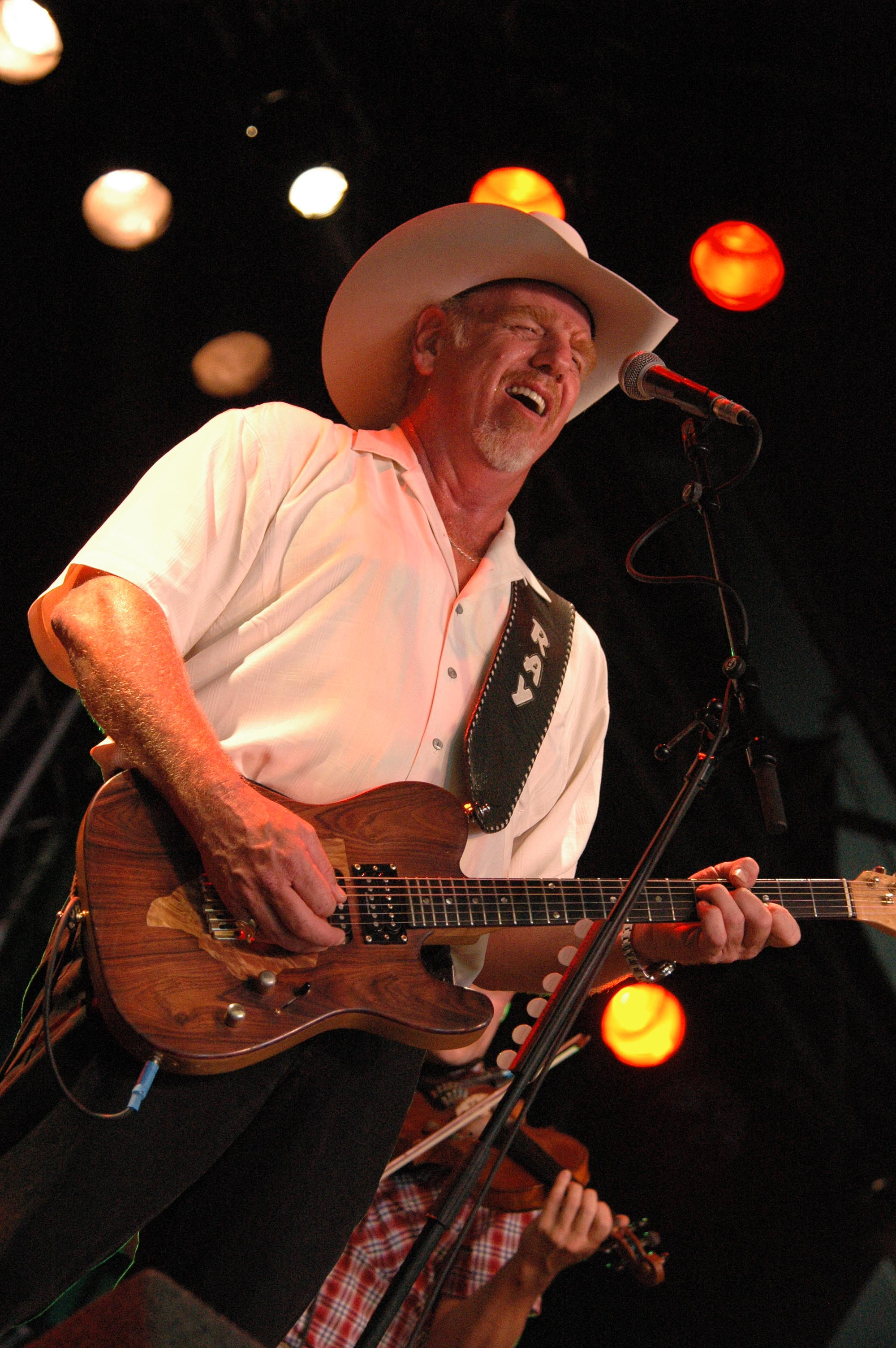 Musicians Cambridge Festivals 2001-2014